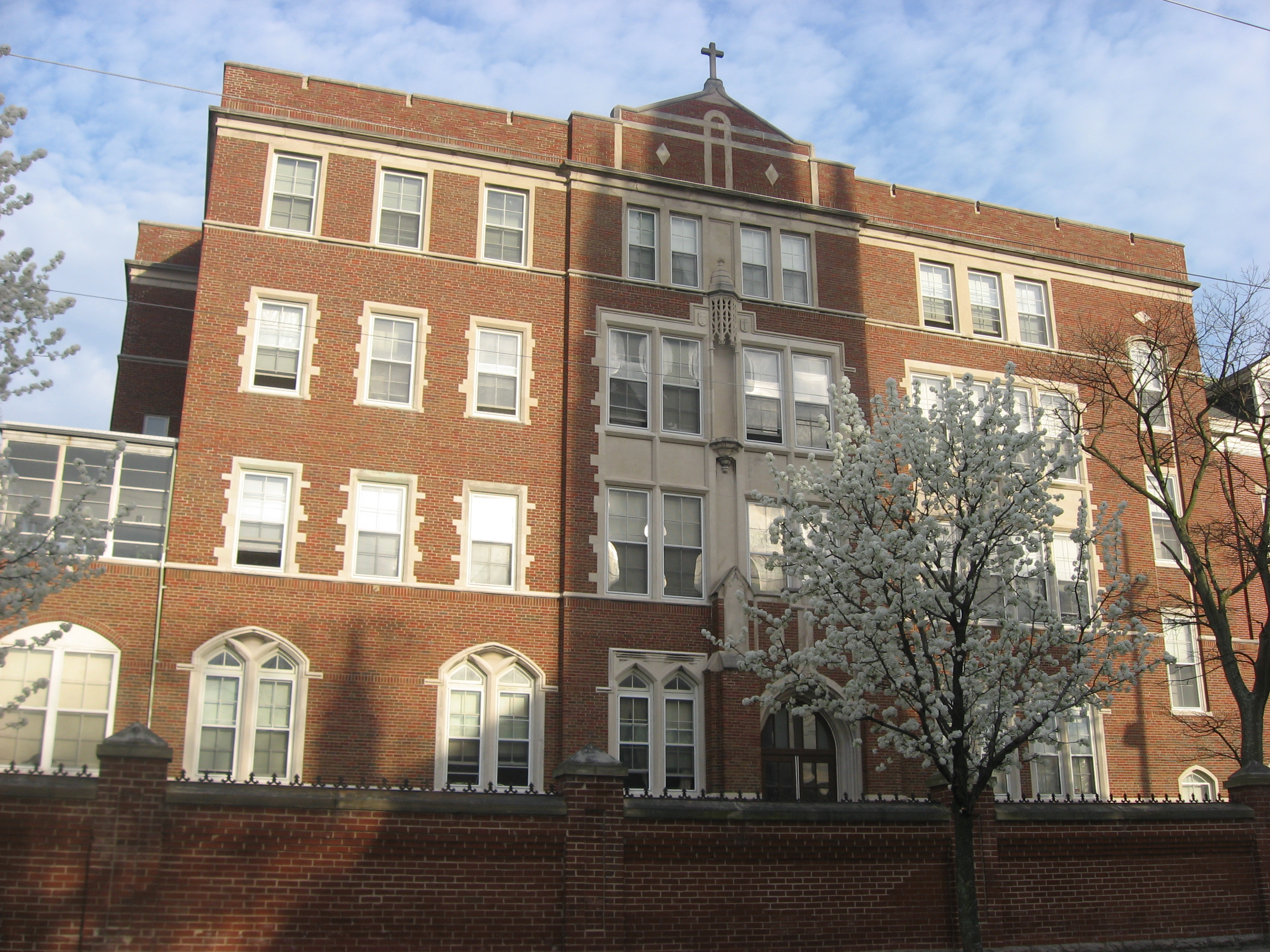 Front of the Notre Dame Academy and Notre Dame High School, located at 926 Second Street in Hamilton, Ohio, United States. Built in 1887, it is listed on the National Register of Historic Places.